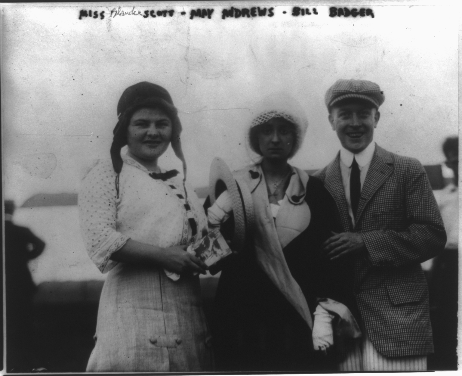 Blanche Scott, 1st woman to drive auto cross country, with friends.